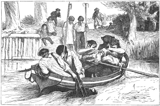 Illustration by William Small which appeared in serialization of Griffith Gaunt in Argosy (UK). Republished in first American edition of the novel (Ticknor & Fields, 1866)